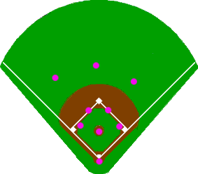 User:PSzalapski made this image and released it into the public domain. Baseball positioning, shallow depth